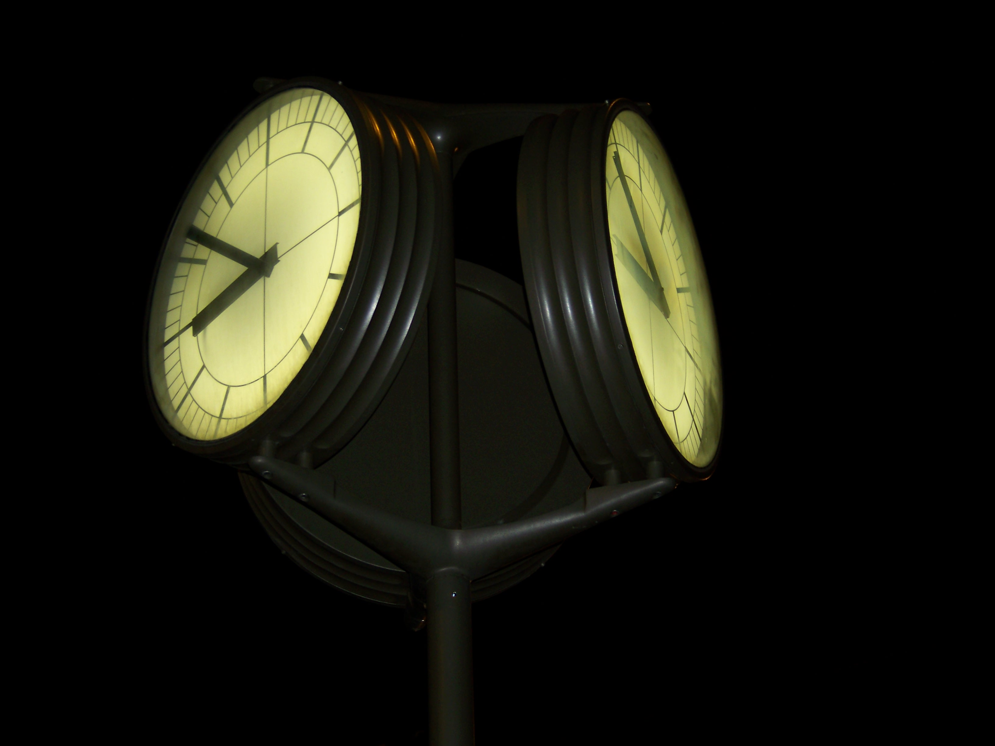 Vršovice, Prague, the Czech Republic. A new illuminated street clock.